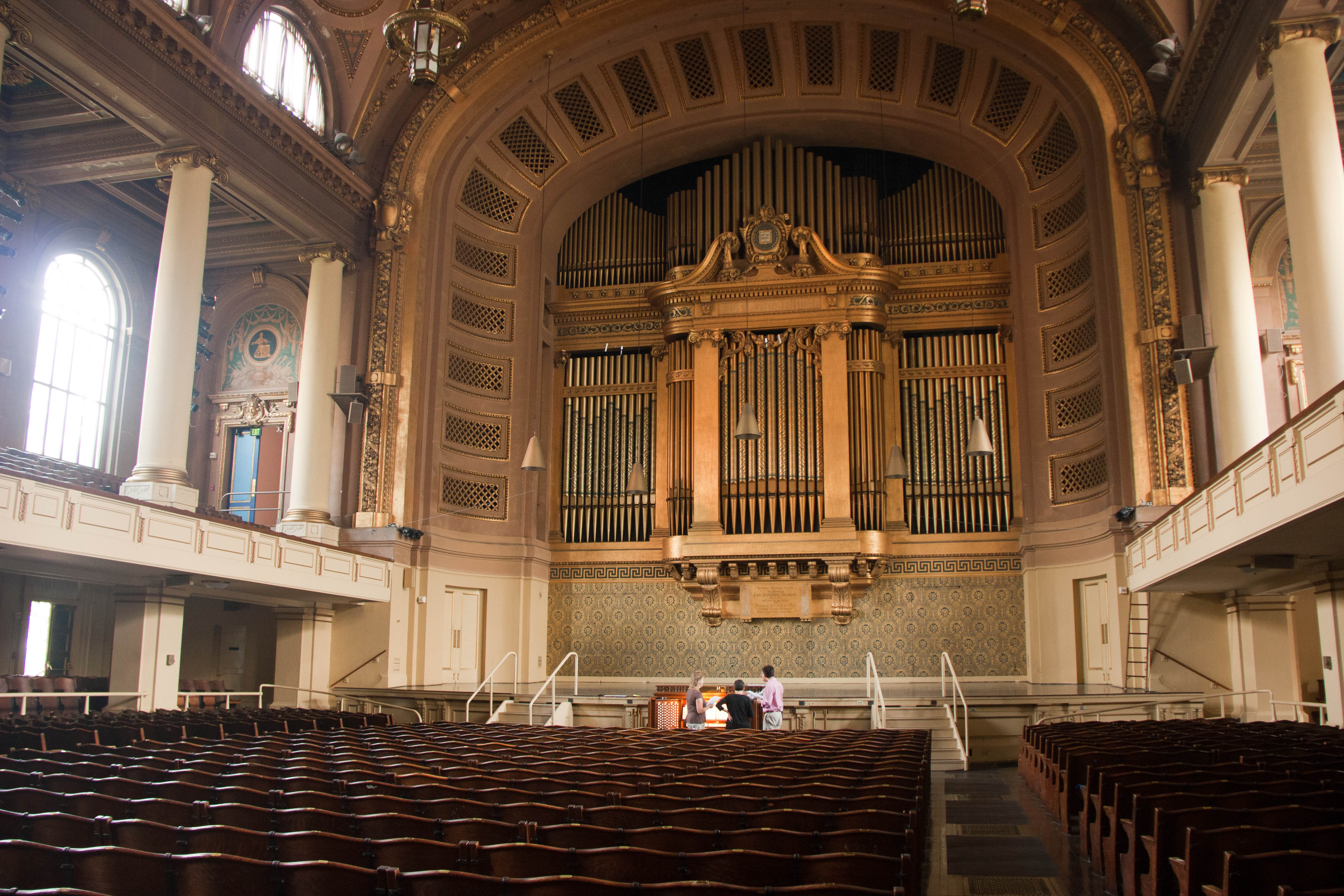 Woolsey Hall at Yale University, New Haven, CT